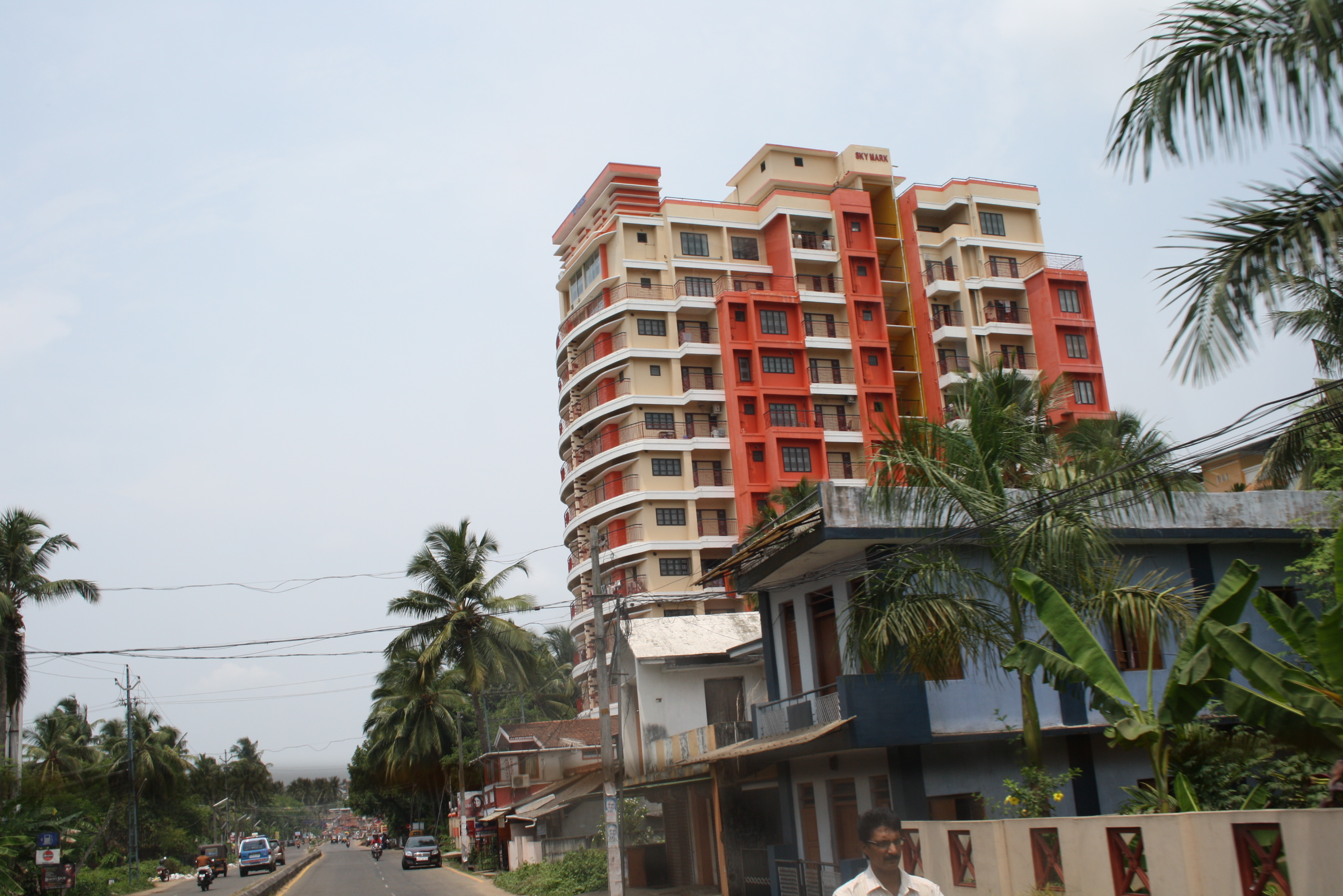 An apartment building in Thrissur city